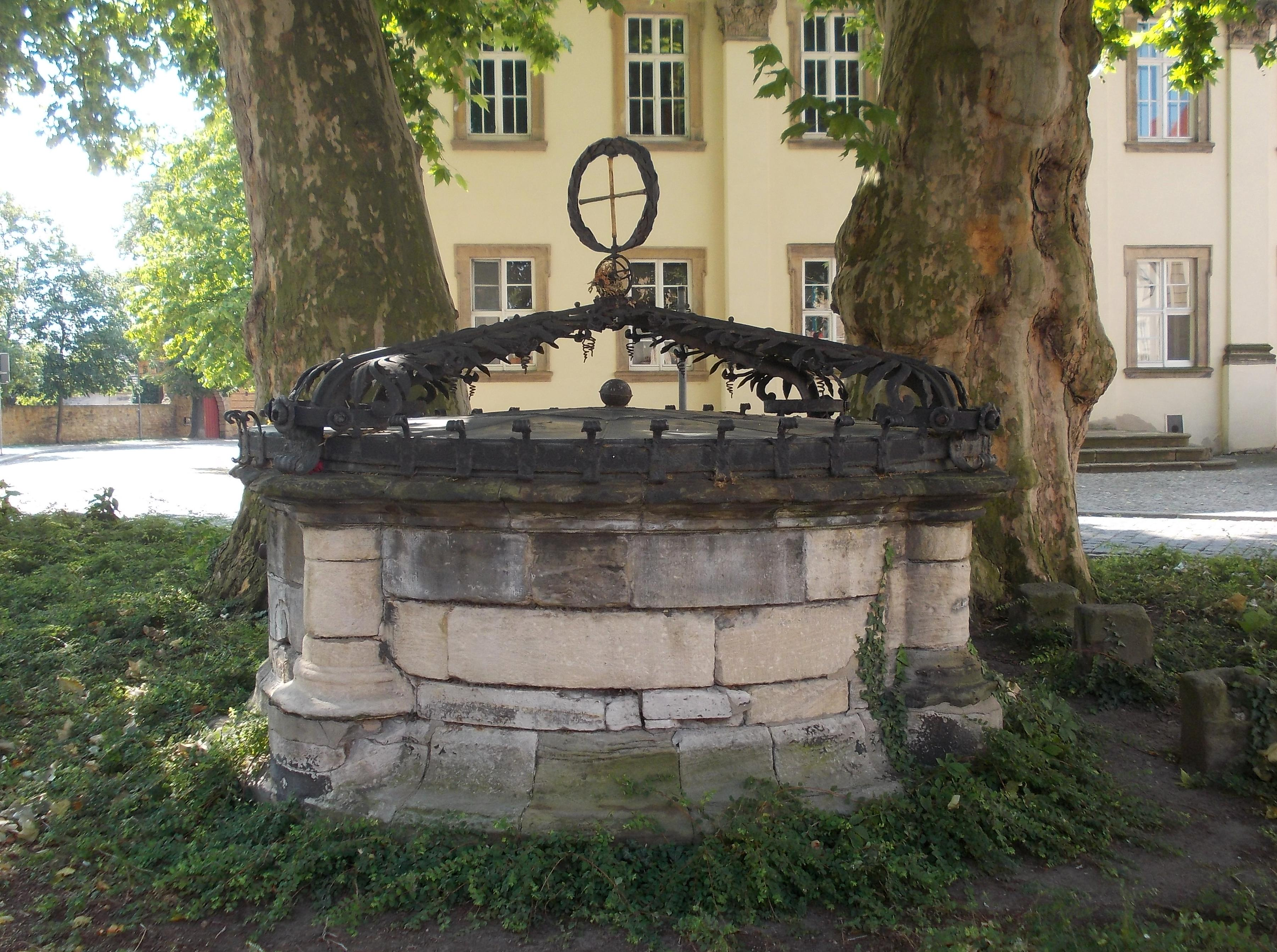 Water well in Domplatz in Merseburg (district: Saalekreis, Saxony-Anhalt)